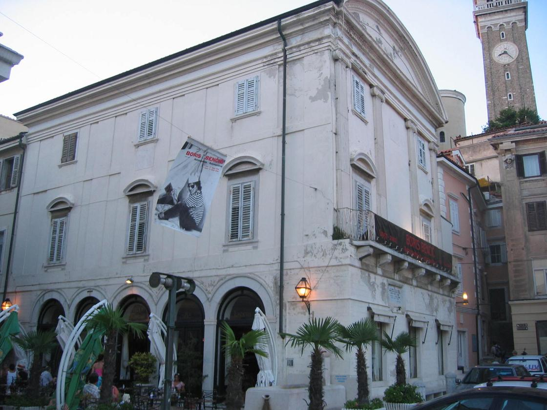 Loggia (Loža) in coastal town Piran, Slovenia photo:Ziga 07:53, 12 August 2006 (UTC)